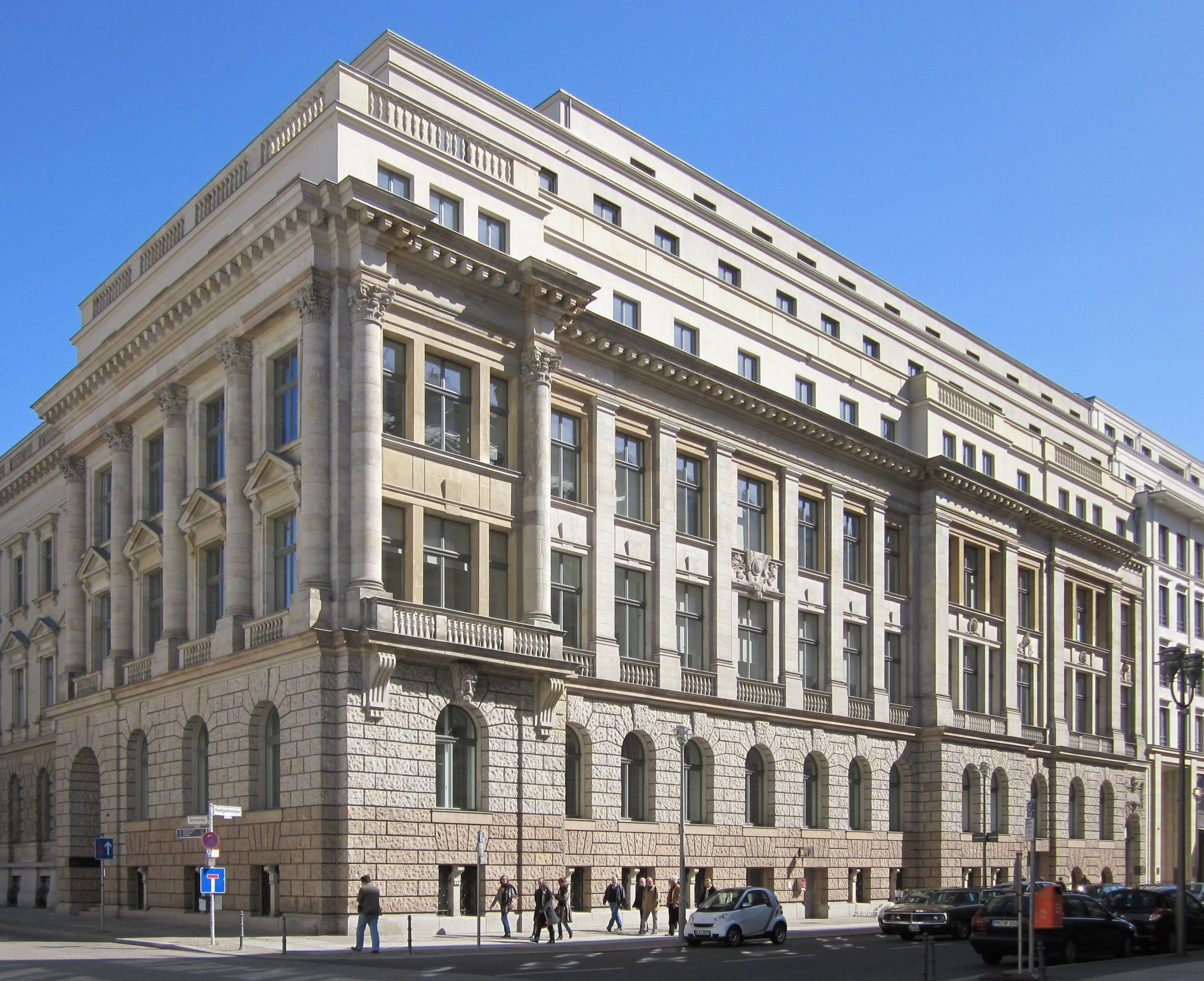 The former Pommersche Hypotheken-Aktienbank at the corner of Behrenstraße and Markgrafenstraße (right) in Berlin-Mitte, now called "Markgrafen-Palais" and seat of the Verband der Automobilindustrie (VDA). Built from 1895 to 1896 to a design by the architects Wittling & Güldner, it was integrated into the neighboring complex of the Dresdner Bank by Ludwig Hoffmann in 1923. The building is part of the protected historic buildings area Dorotheenstadt.